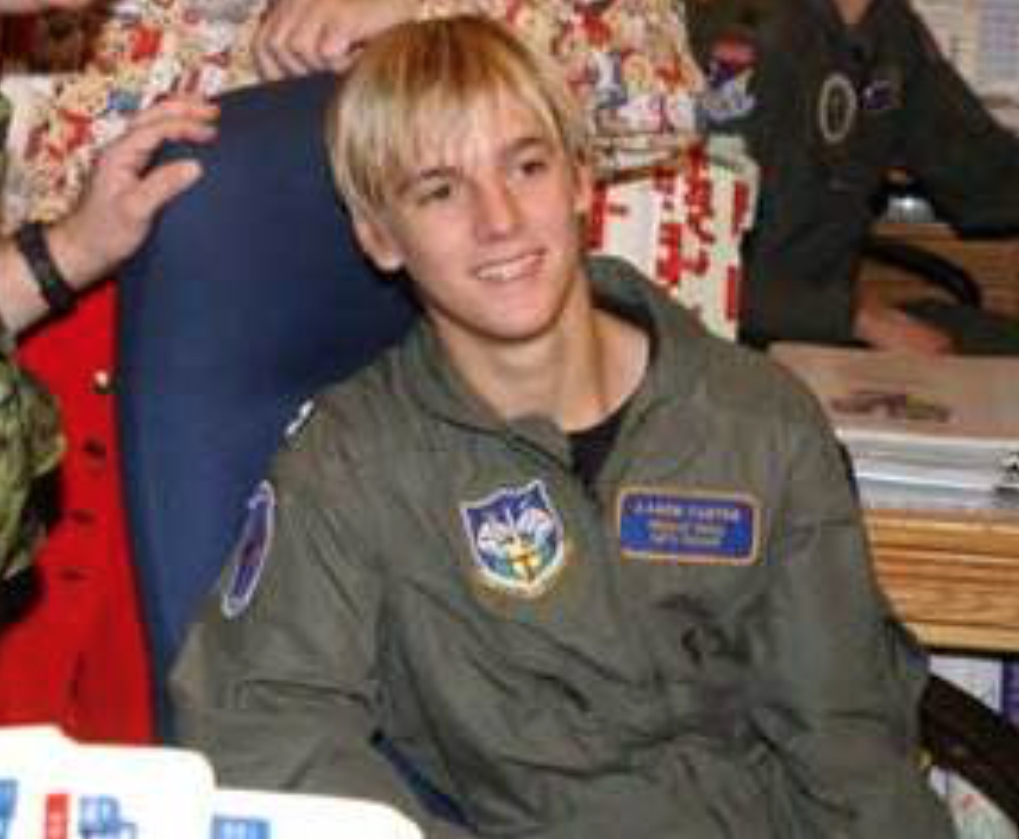 Aaron Carter and Santa Claus being briefed on the NORAD Tracks Santa program in November 2002 by Major Douglas Martin, Canadian Forces, Deputy Director of NORAD Public Affairs and Chief Santa Tracker